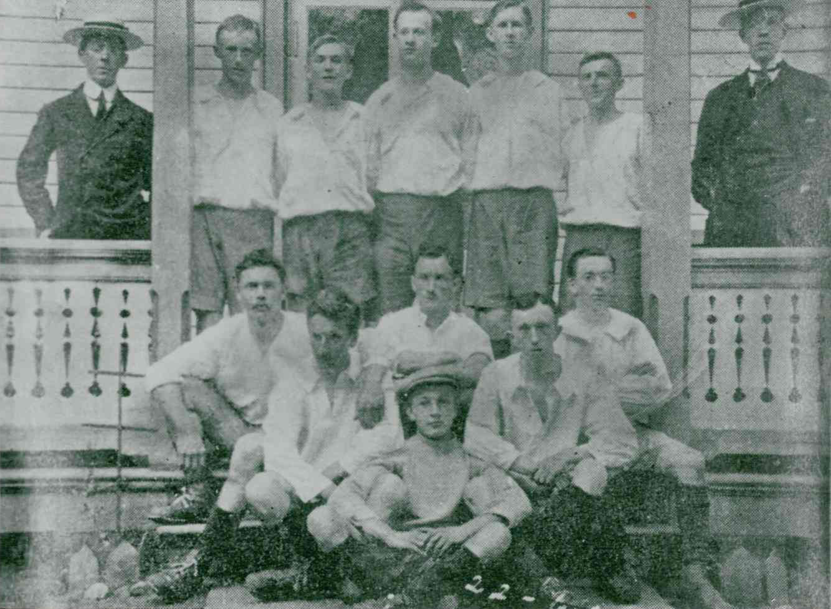 Ulf's first ever team that played a match. Opponent was Flekkefjord.